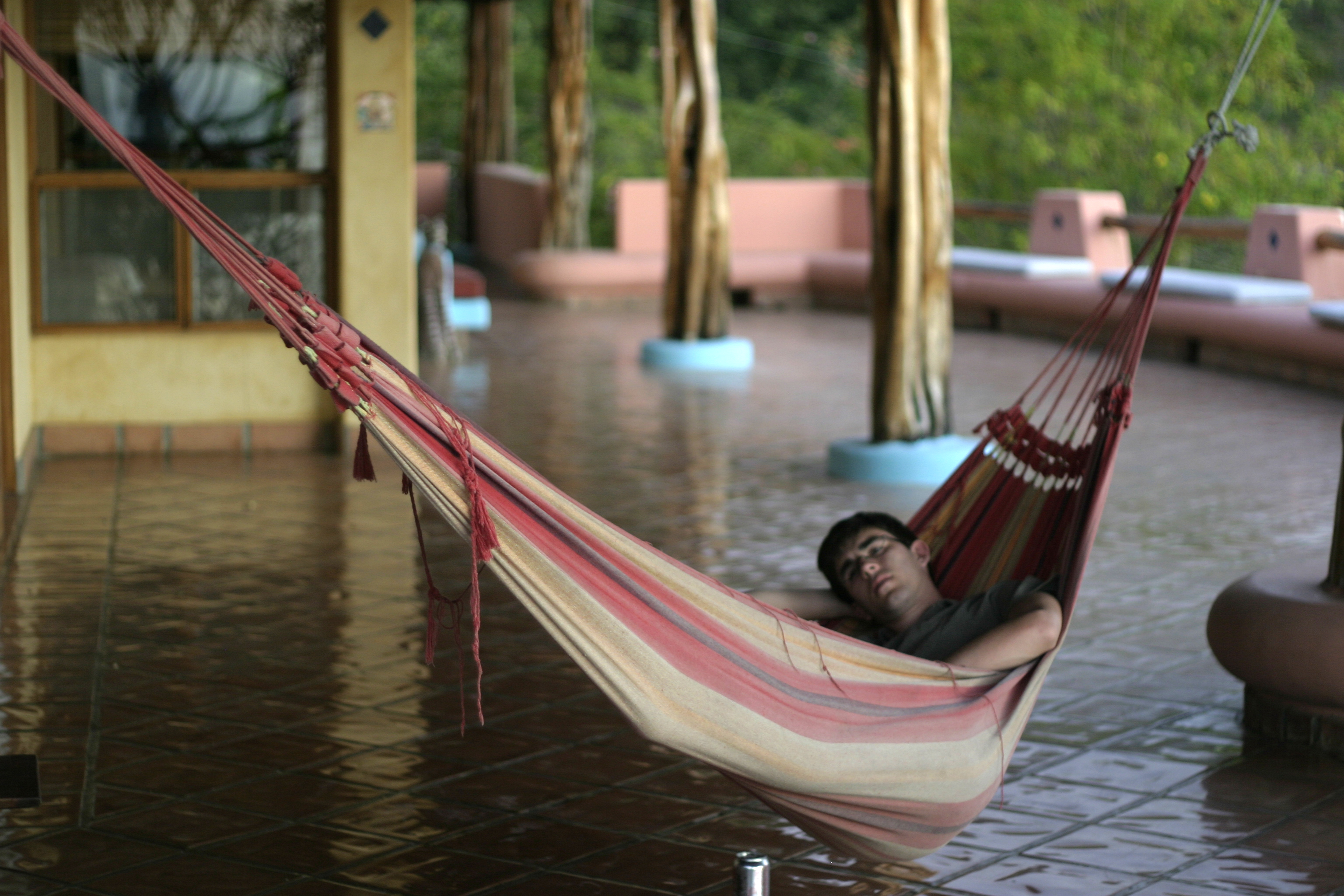 Sleeping in Costa Rica